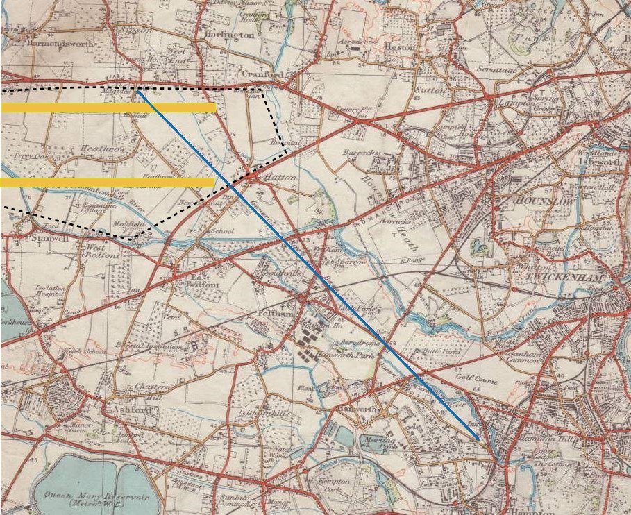 General William Roy's survey baseline, from Heathrow to Hampton, west of London, constructed for the Anglo-French Survey before the start of the Ordnance Survey. See File:Heathrow Before World War II Map.jpg for a larger-scale map of the Heathrow area as it was around 1935.